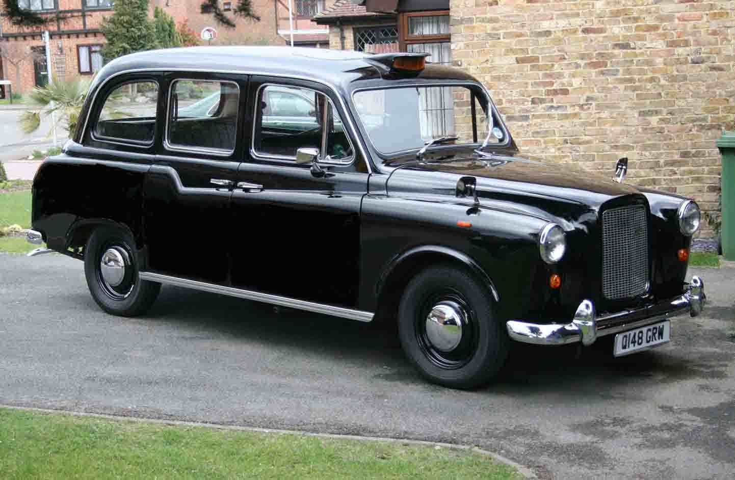 The rare FX4Q was sold as an alternative to the FX4R